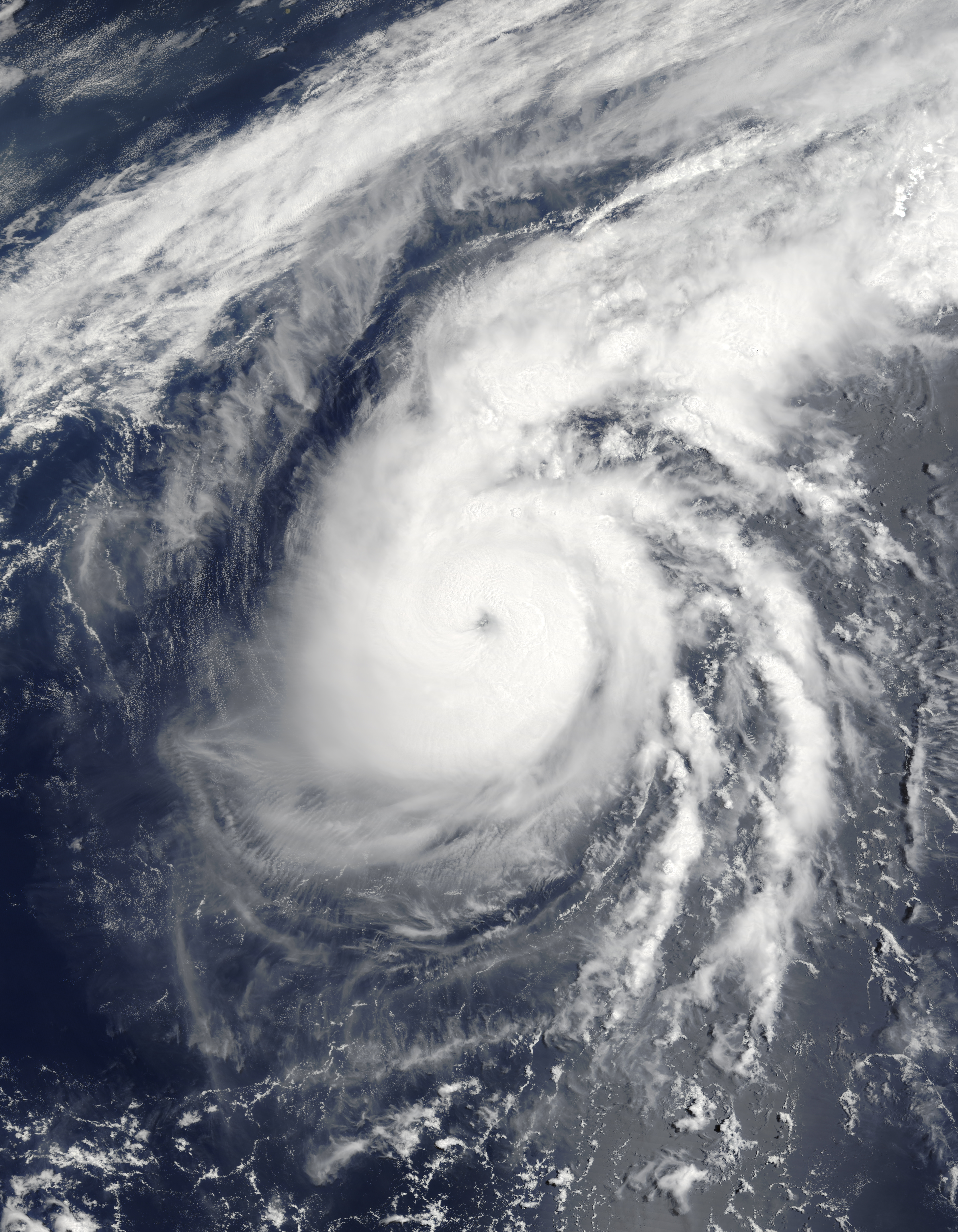 Typhoon Yutu (2007), as seen from NASA Terra MODIS at its lower peak (105 kt from JTWC) on May 20, 2007.